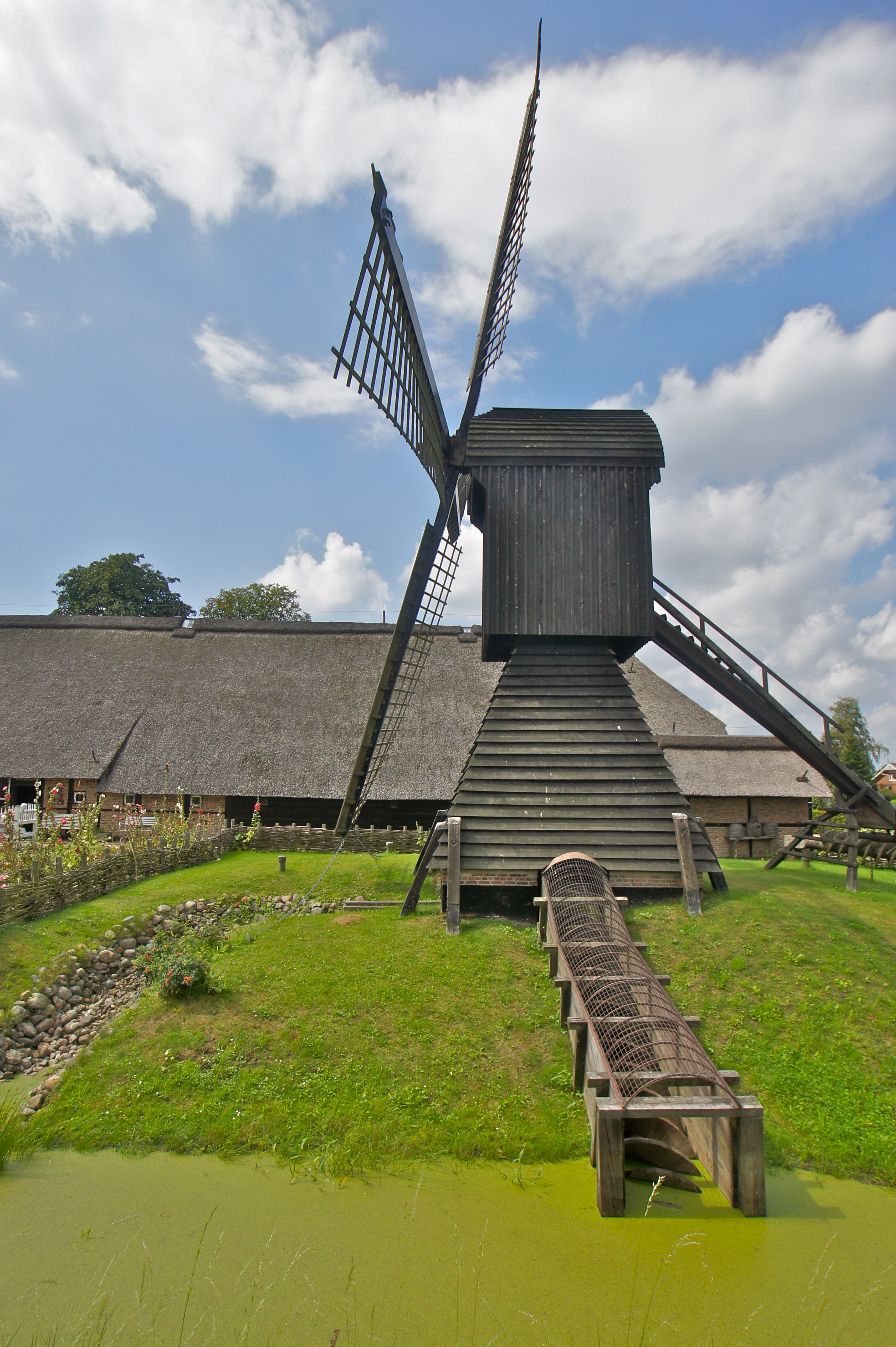 Hamburg (Curslack), Germany: Mill from Ochsenwerder in the Rieckhaus Museum